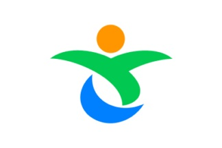 Flag of Sayo Hyogo